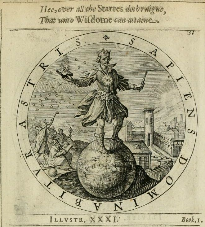 George Wither: Sapiens dominabitur astris, Illustr. XXXI, 31, Book 1, 1635, from George Wither, A Collection of Emblemes Anciente and Moderne, London (1635). A king with the Eye of Providence on his breast is standing on a globe with the signs of the Zodiac (Aries, Taurus, Gemini, Cancer, Leo, Virgo Libra, Scorpio, Sagittarius) and sun, moon and planets: Mars, Saturn, Venus. Left: astronomers are performing observations. A town with fortifications and tower in the background.